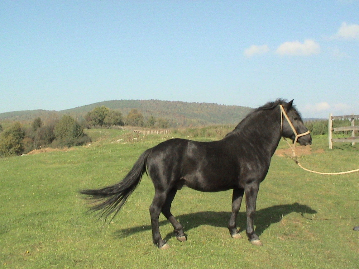 Bosnian Pony